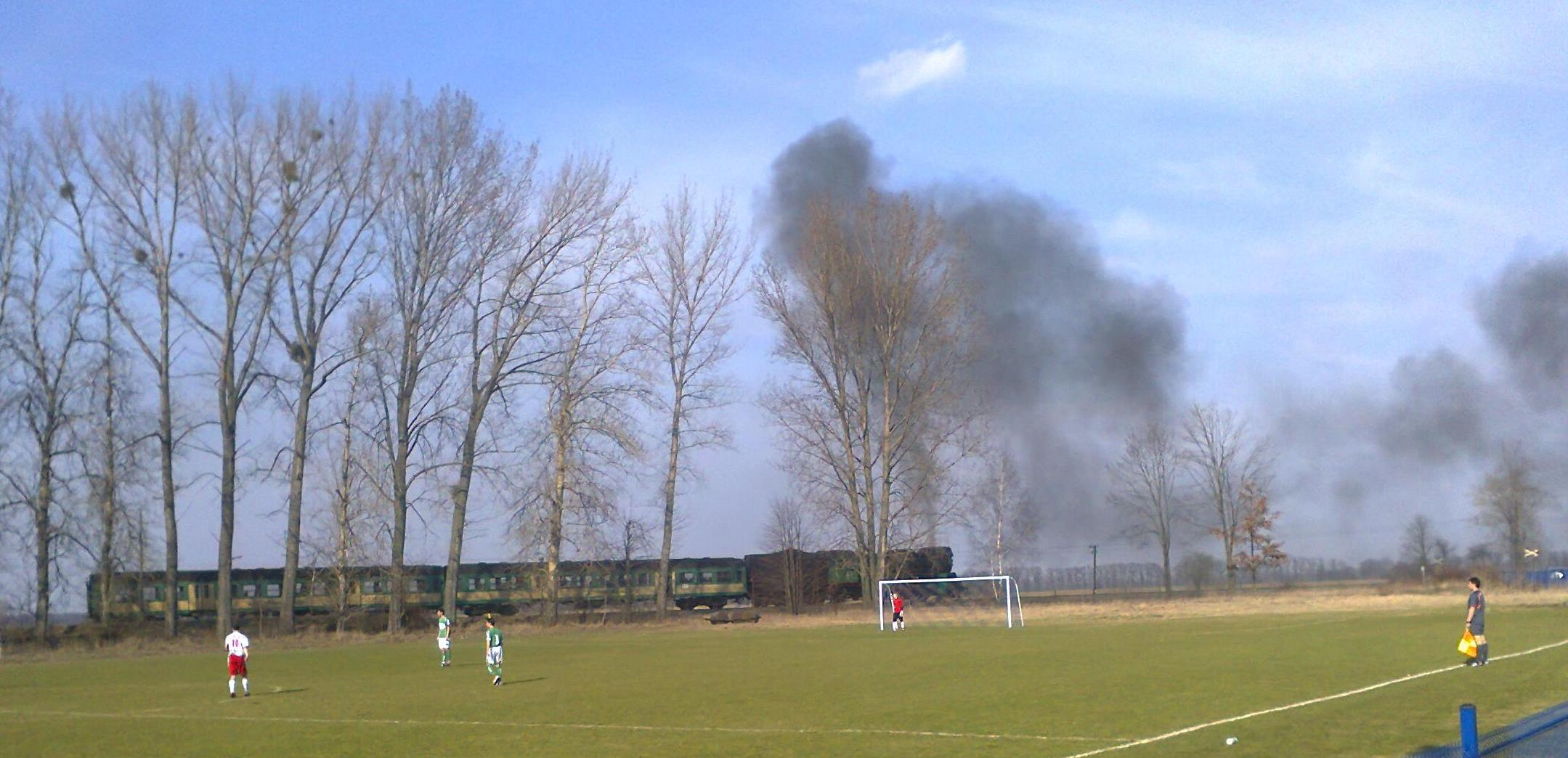 The Ptaszkowo Stadium during a football match of Dyskobolia Grodzisk